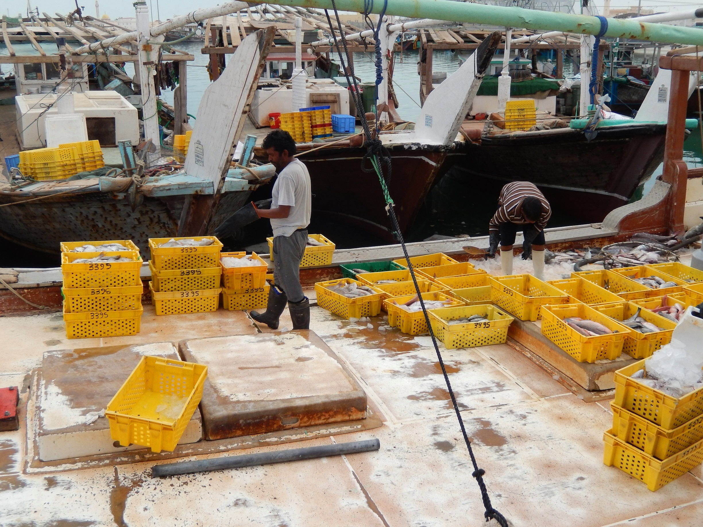 Inspecting the catch on a dhow in the harbour of Al Khor, Qatar.